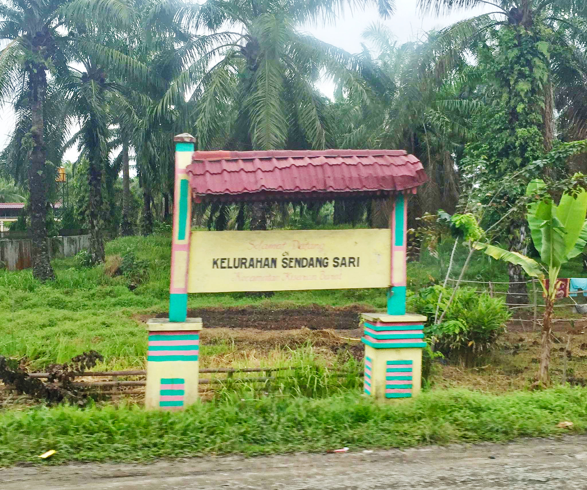 welcome sign to Sendang Sari, Kisaran Barat, Asahan